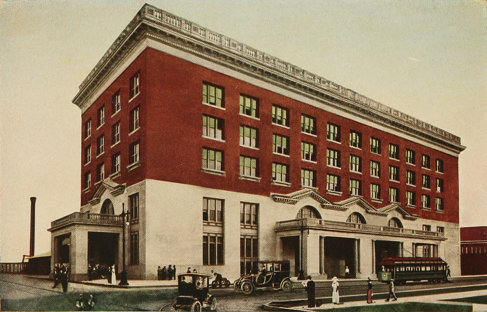 Union Station, 1913 - From "Houston: Where Seventeen Railroads Meet the Sea" Page 18/40 "The New Union Station Is a Part of the $5,000,000 Holdings of the Houston Belt & Terminal Company. Finest Passenger Station in the South."